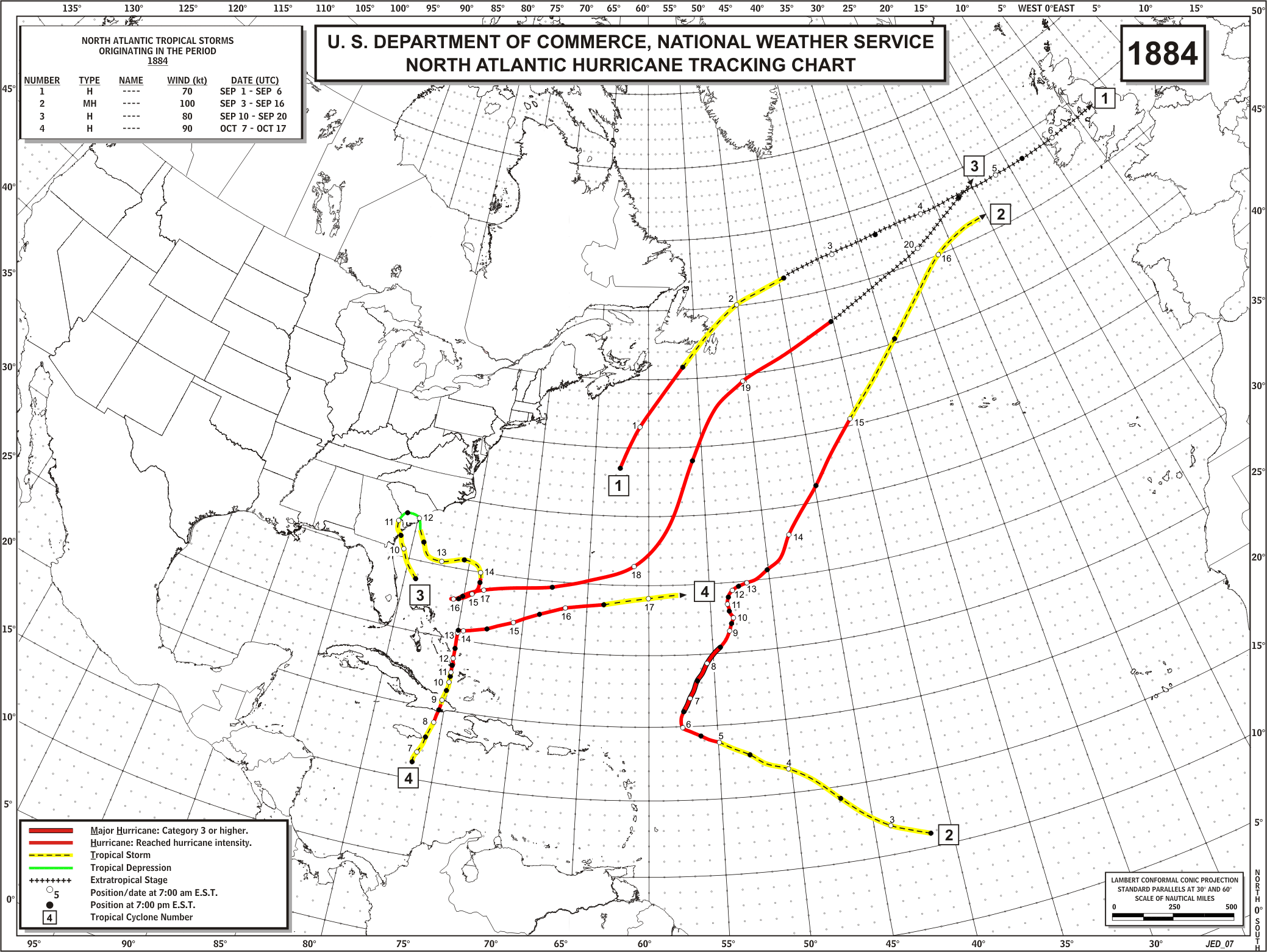 Season summary provided by NOAA of the 1884 Atlantic hurricane season.